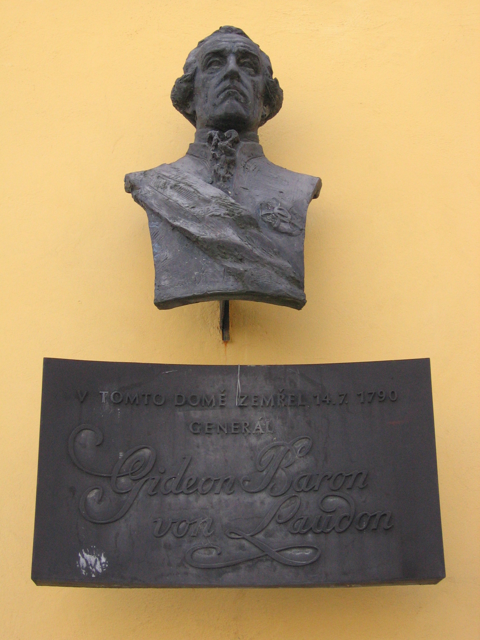 Bust of general Laudon. Bust is located on the central square in Nový Jičín, on the house where he died.